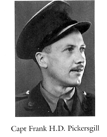 Photo of Frank Pickersgill – From: University of Toronto Memorial Book Second World War 1939-1945. The book was published by the Soldiers' Tower Committee, University of Toronto.